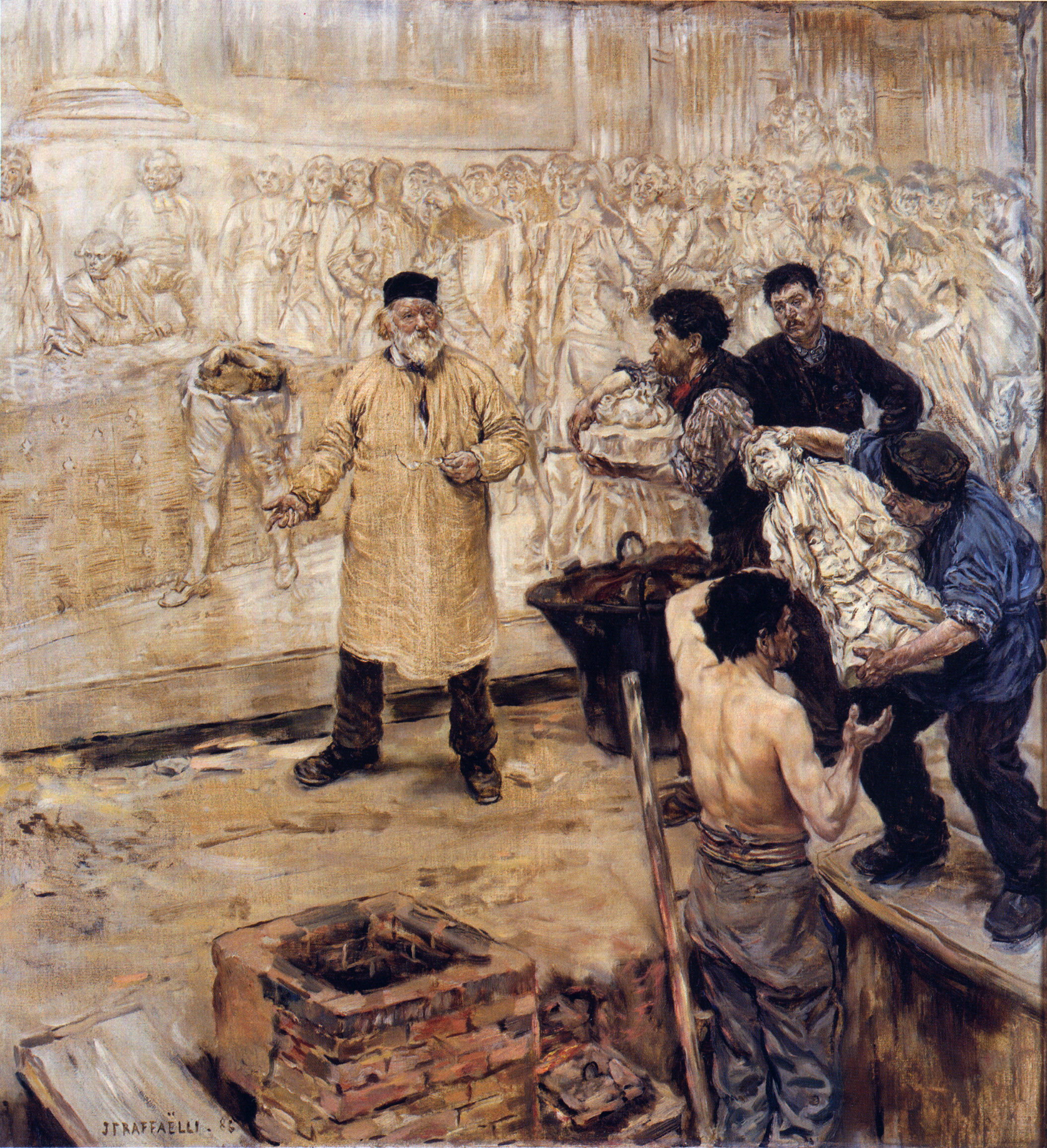 The painting shows the caster Eugène Gonon (on the left) supervising the casting of the high-relief Mirabeau replying to Dreux-Brézé by Jules Dalou. A plaster cast of this sculpture was exhibited at the Salon of 1883. The bronze is now at the Palais Bourbon in Paris.